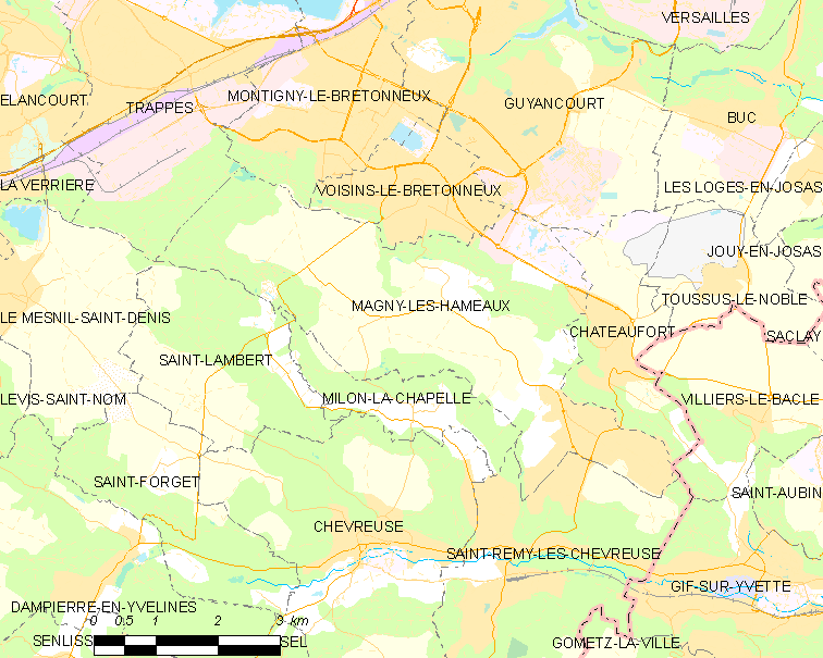 Map of French municipality Magny-les-Hameaux